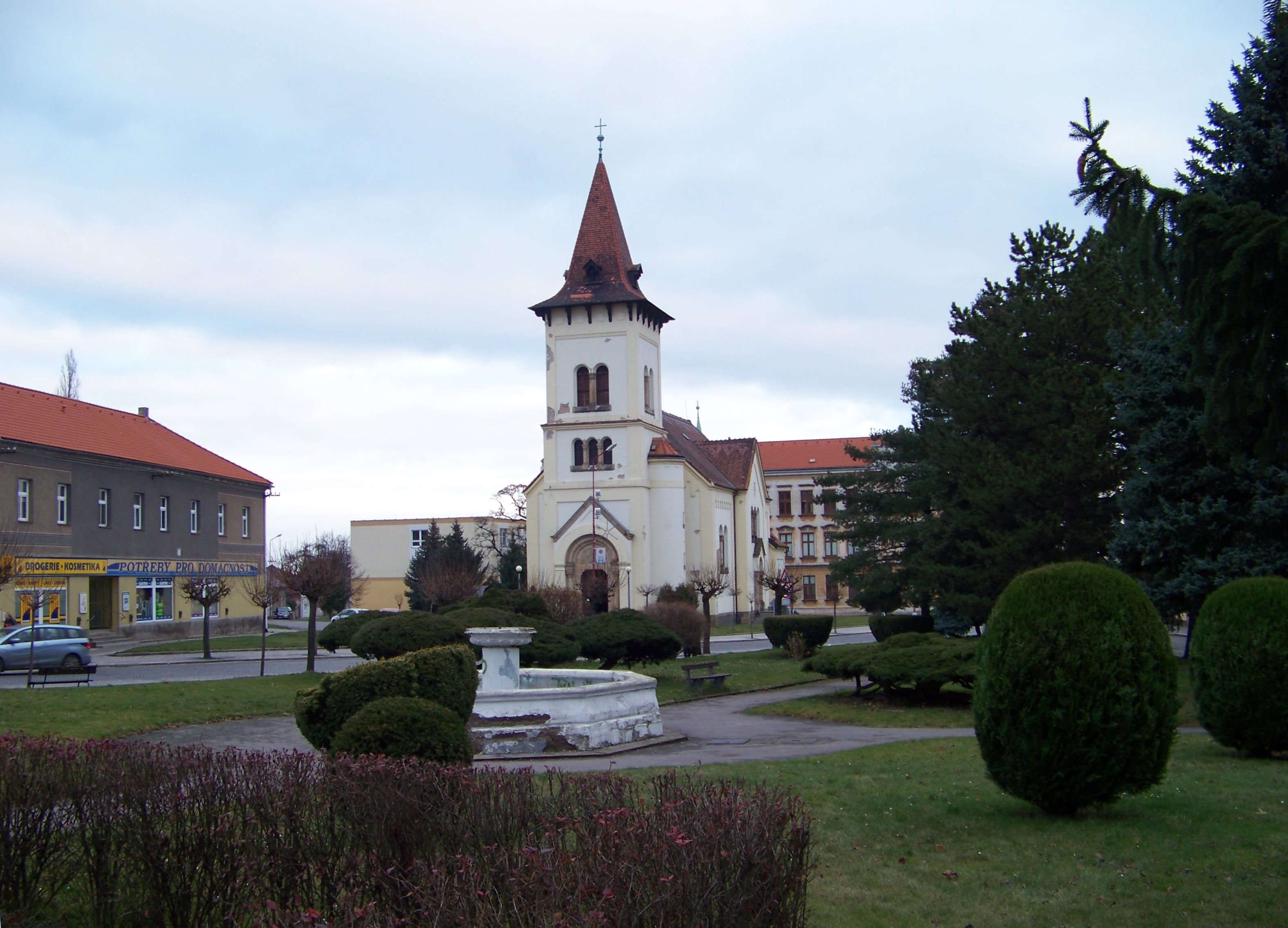 Pečky, Kolín District, Central Bohemian Region, Czech Republic. Masaryk Square, a fountain and Saint Wenceslaus Church. - Google Maps - Google Earth